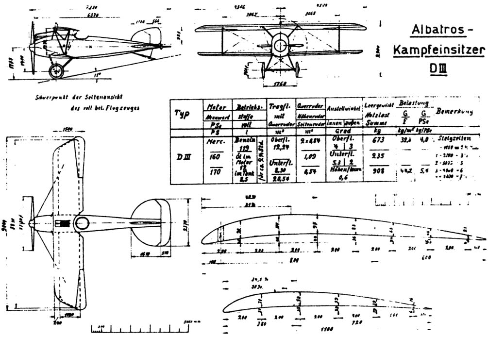 Albatros D.III German World War 1 single seat fighter